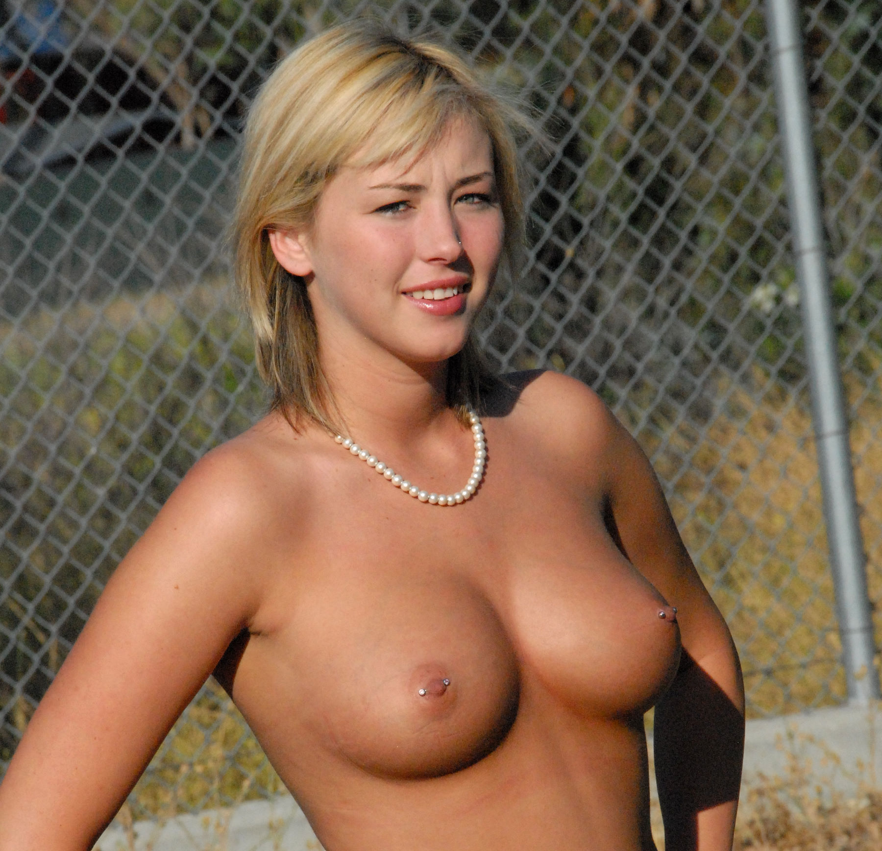 Katrina Johnson-Robertson of Lancaster California